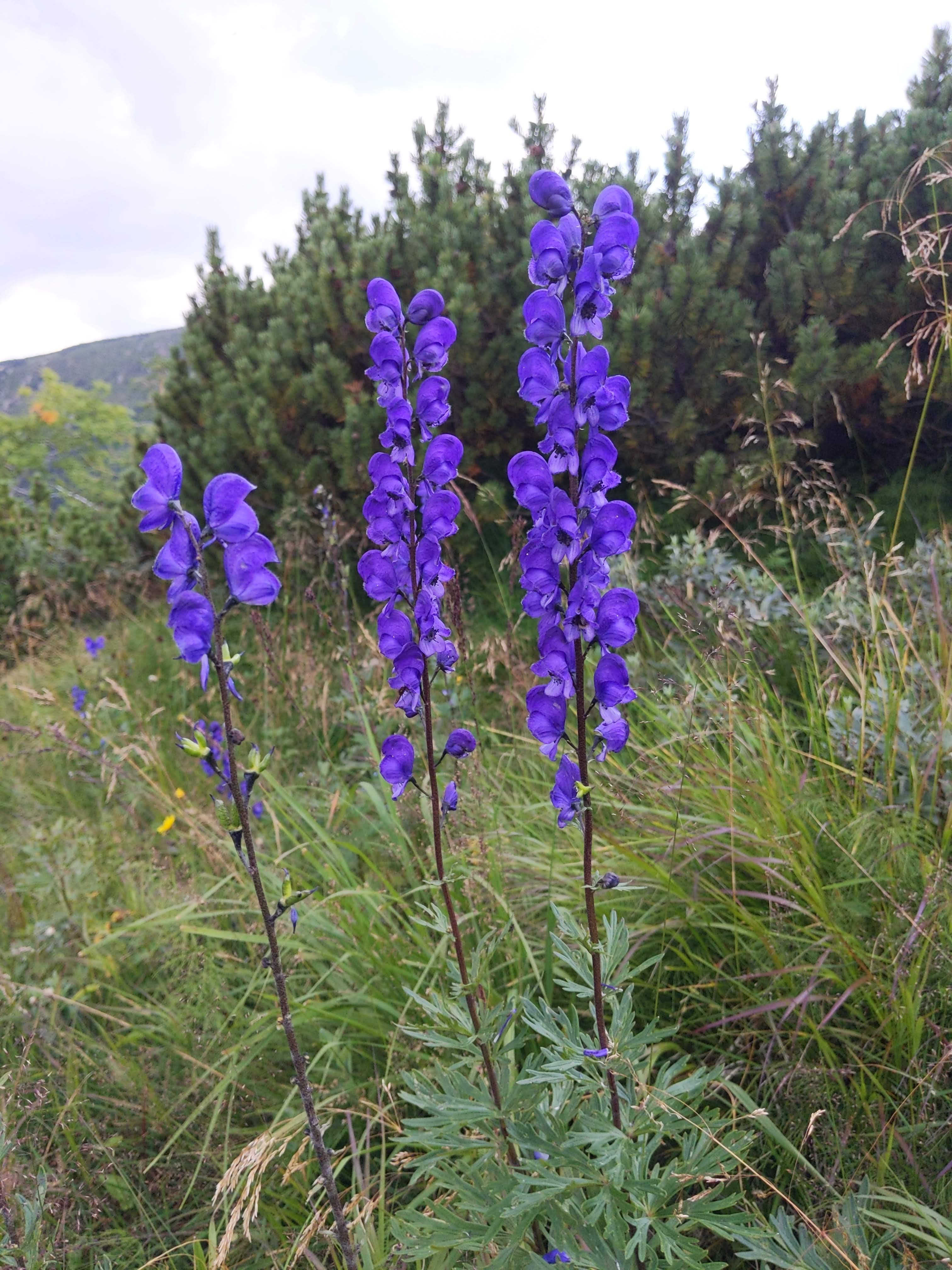 Aconitum plicatum from Krkonoše National Park, Poland (near border with Czechia)